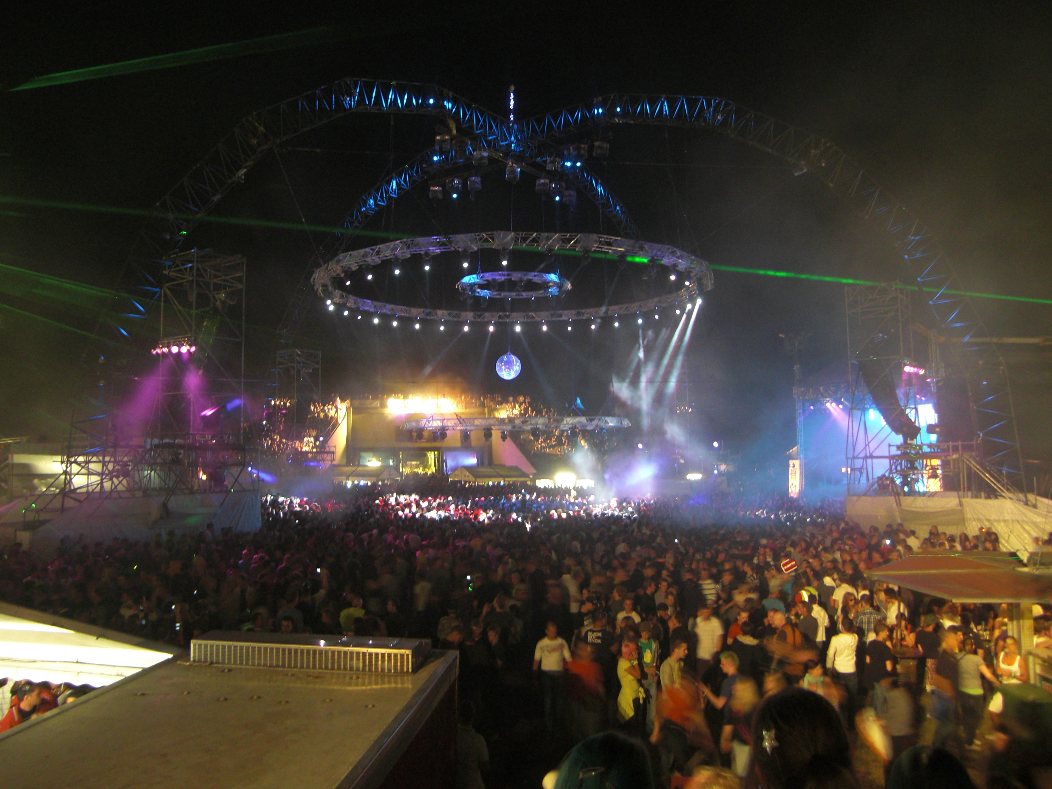 Picture of the Main Floor at Electronic Music Festival Nature One in Germany from 2009.